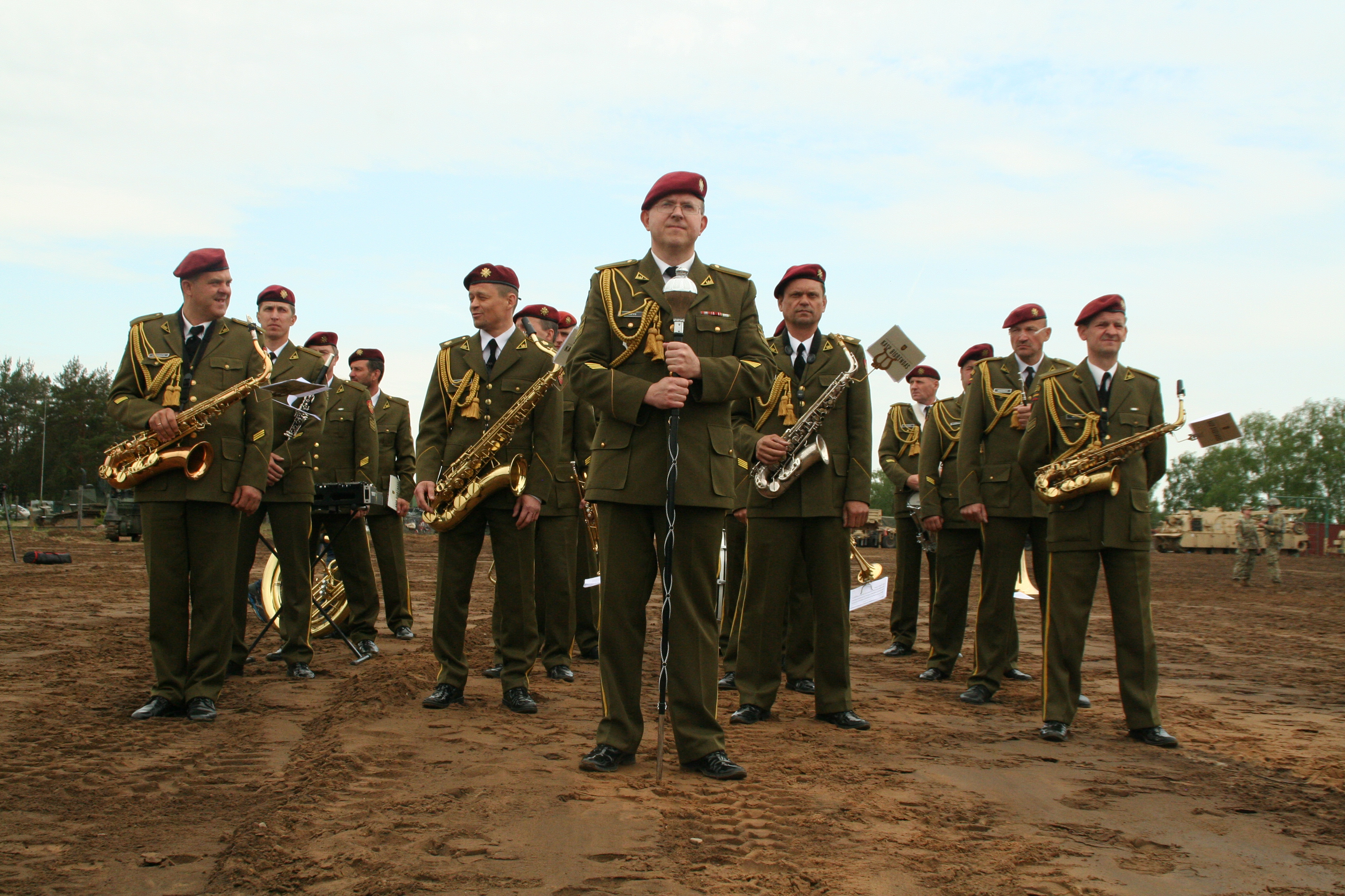 Lithuanian Armed Forces Band "Iron Wolf" at the Opening Ceremony of Exercise Iron Wolf as part of Saber Strike 17, June 12, 2017, near Pabrade, Lithuania. Exercise Iron Wolf 17 is one of many similar Exercise Saber Strike17 events across Europe designed to deter aggression and strengthen alliances between. The U.S., Estonia, Lithuania, Latvia, Poland, Croatia, Portugal and other allied nations. (U.S. Army Photo by Sgt. Steve Johnson/Released)